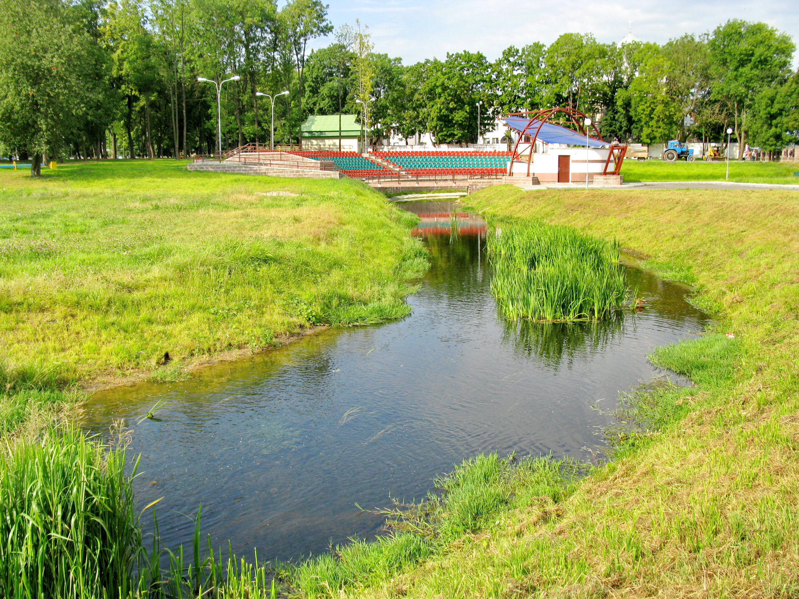 Smarhon. The Oksna river and the amphitheater. Belarus